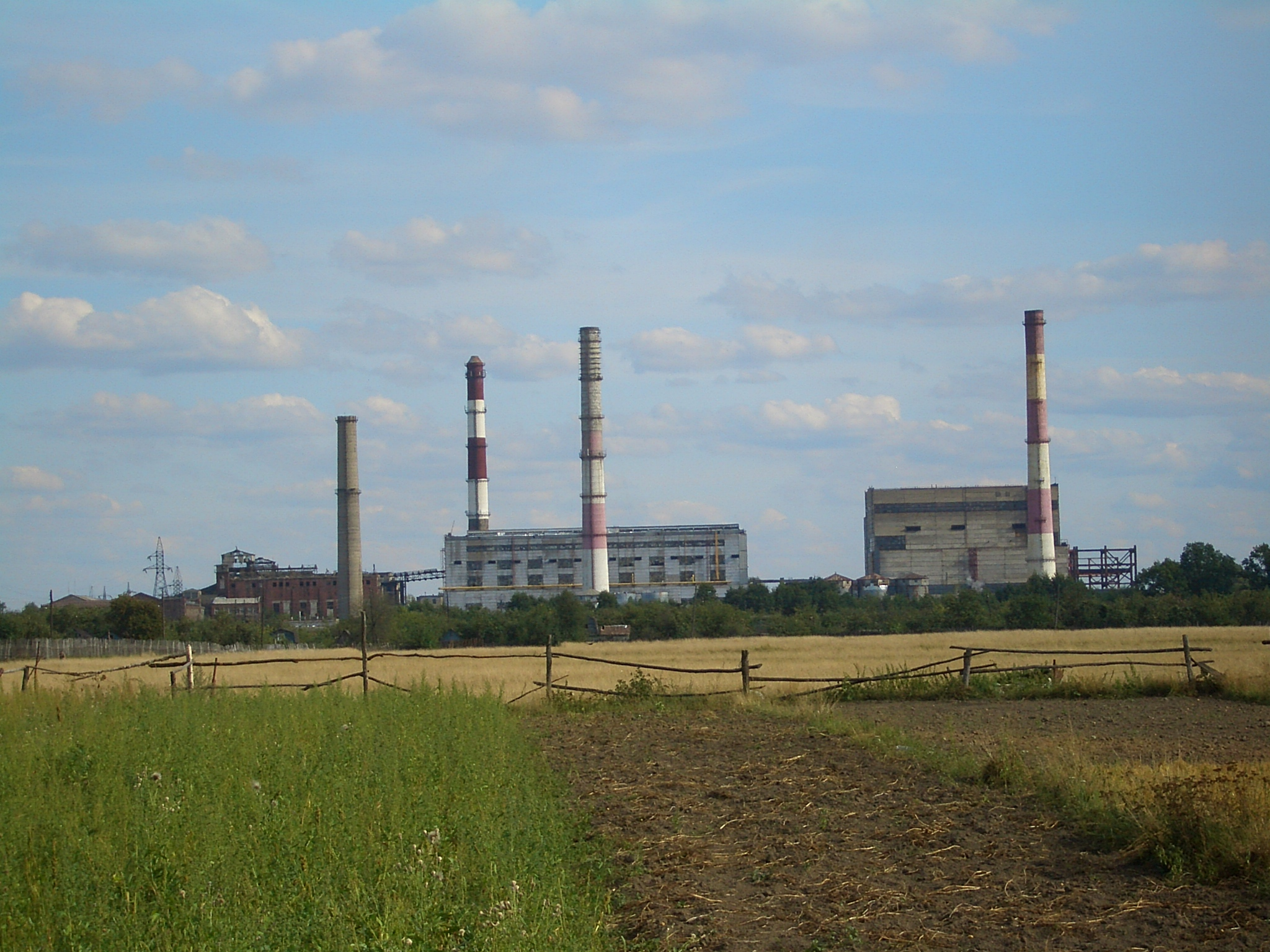 A thermal power plant between Pravdinsk and Balakhna proper